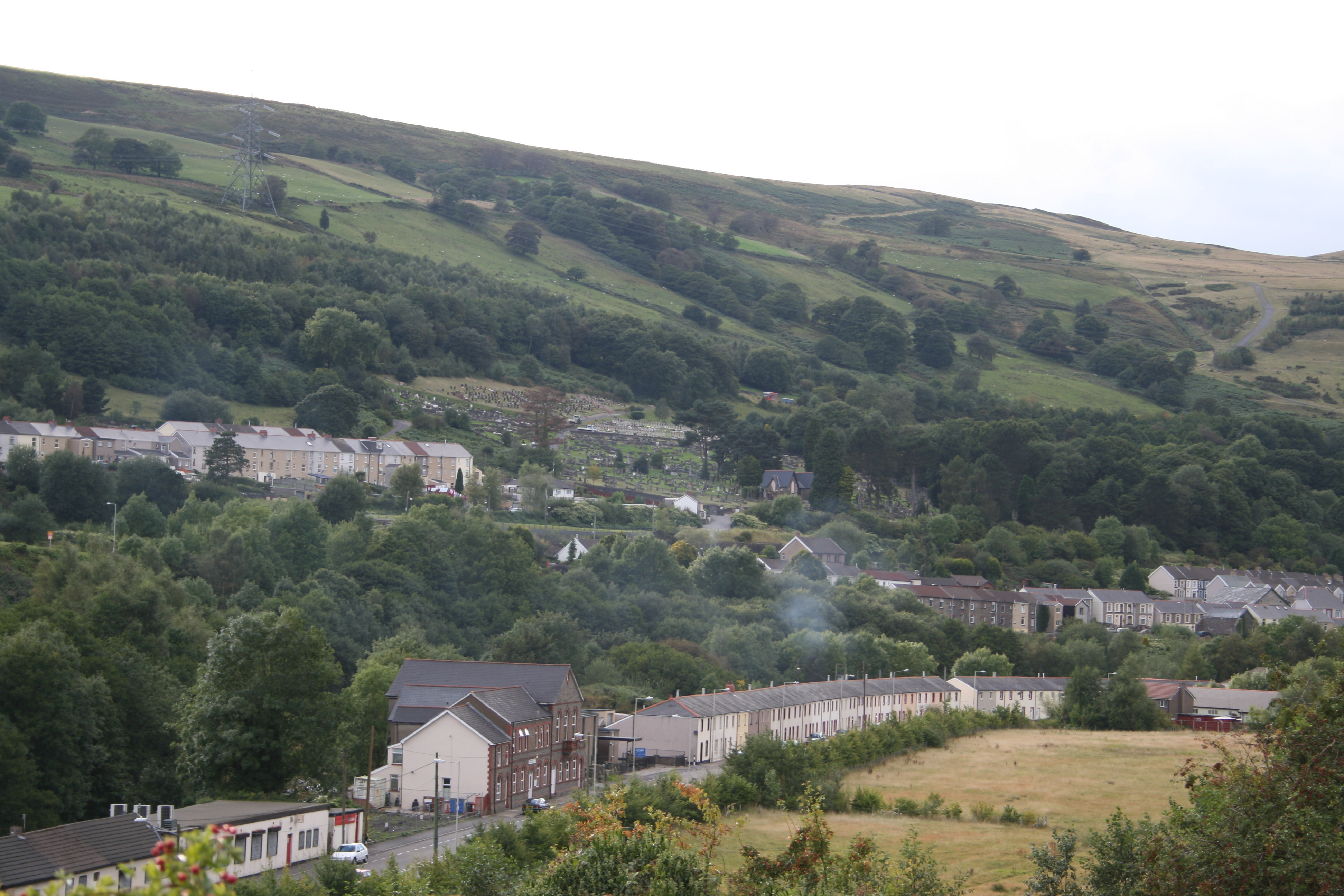 View of Merthyr Vale & Aberfan. Aberfan cemetery can be seen on the hillside towards the middle of the photo.